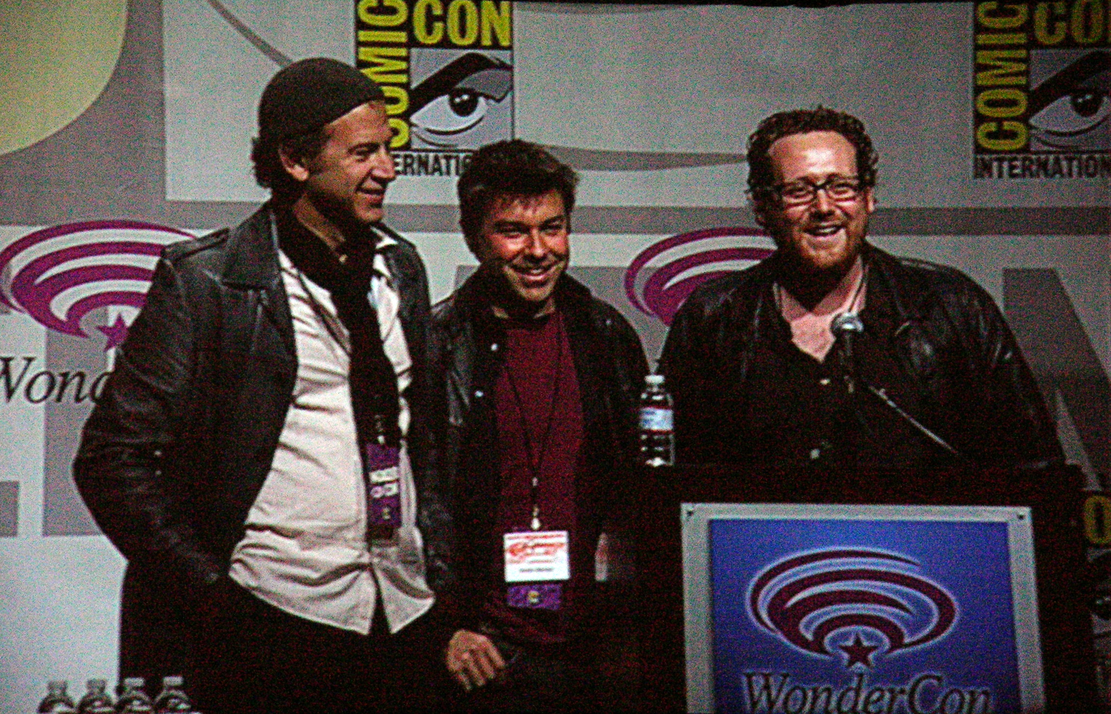 The producers of the TV series Happy Town at a panel promoting the series at WonderCon 2010. From left to right: Scott Rosenberg, André Nemec, and Josh Appelbaum.